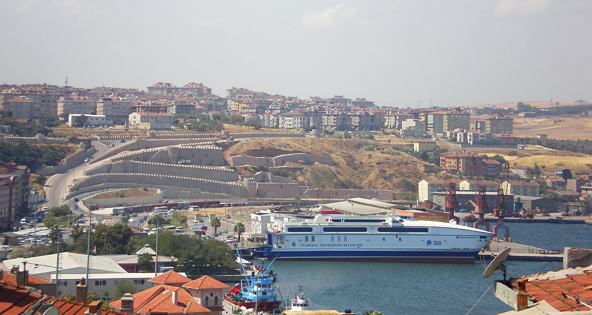 Bandirma harbour with the ferry Adnan Menderes.